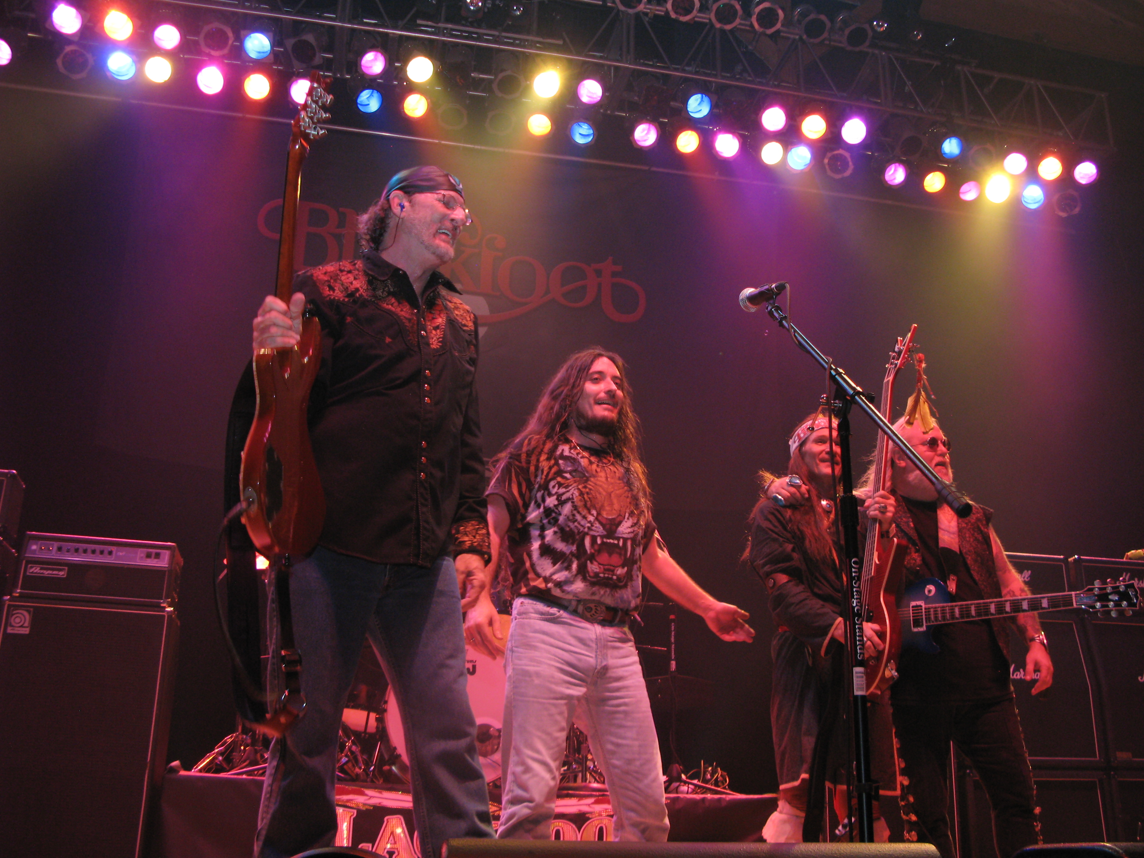 Blackfoot at Penns Peak